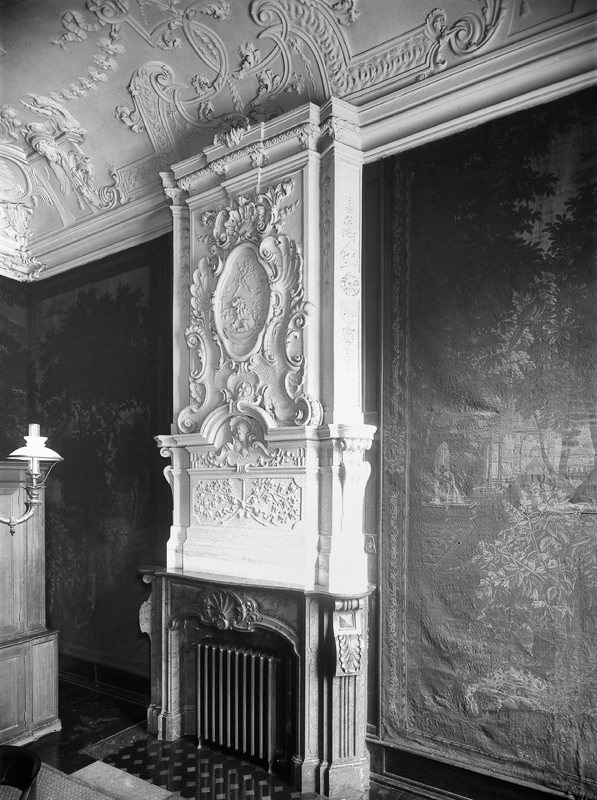 Town hall Maastricht, the Netherlands. Verdure tapestries (1705) and plastered ceiling and chimney with stucco decorations by Tomaso Vasalli in the Secretary's Chamber, 1735 (photo by G. de Hoog, 1915).